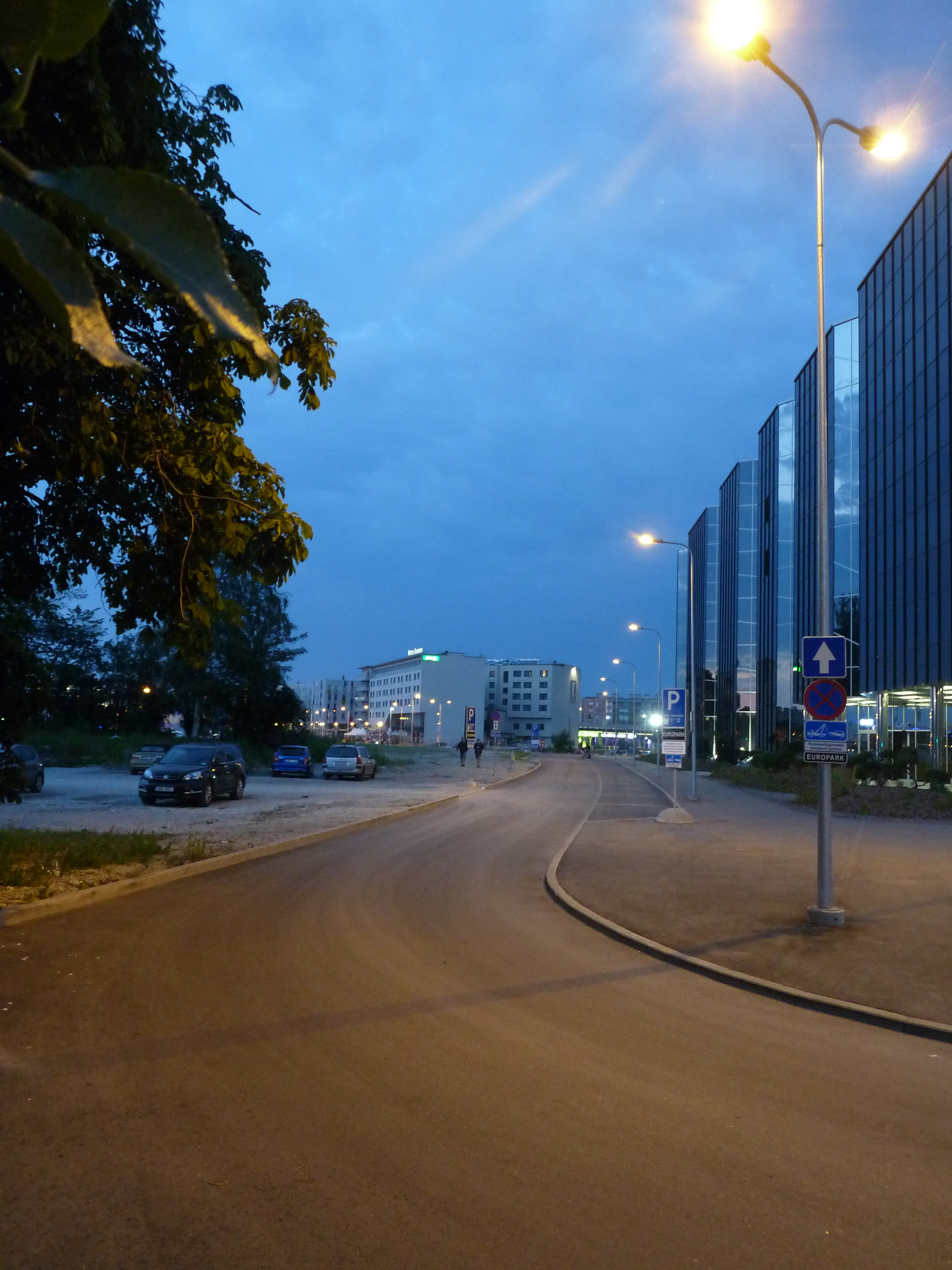 Laeva street in Tallinn, Estonia